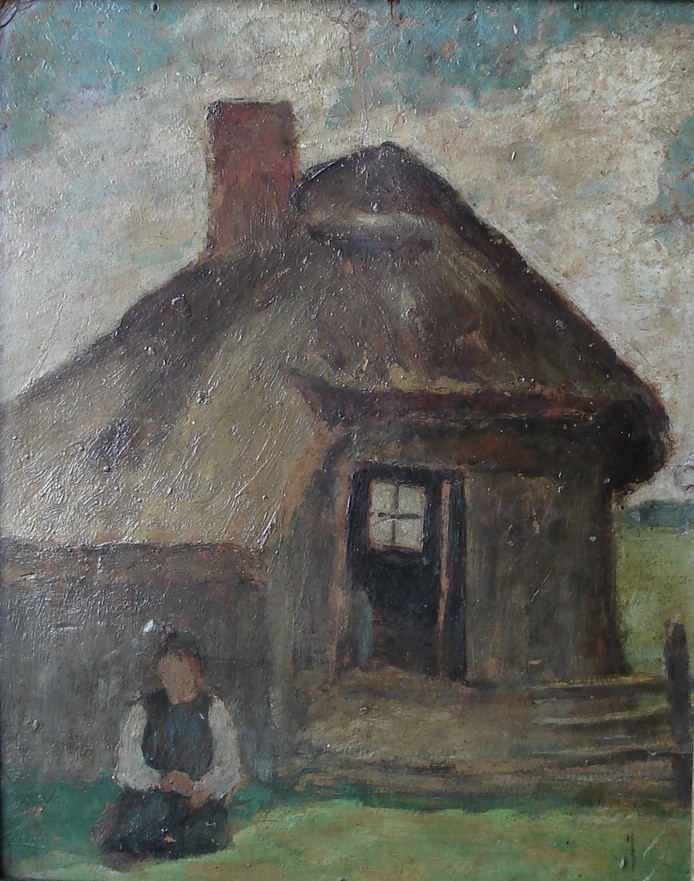 In the front of a chat, about 1910